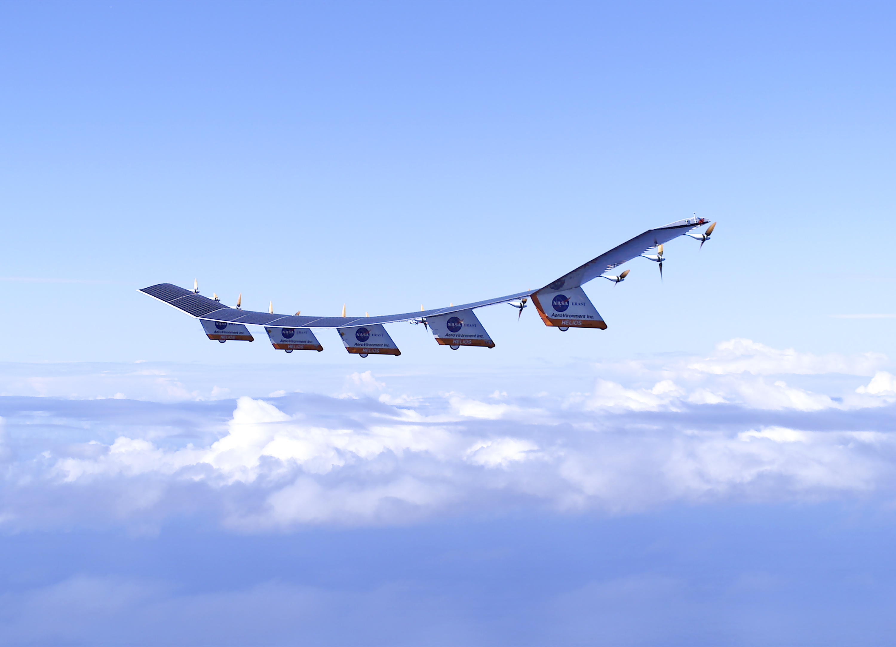 Depicts NASA's Helios aircraft flying at 10,000 feet in skies northwest of Kauai, Hawaii in August 2001.